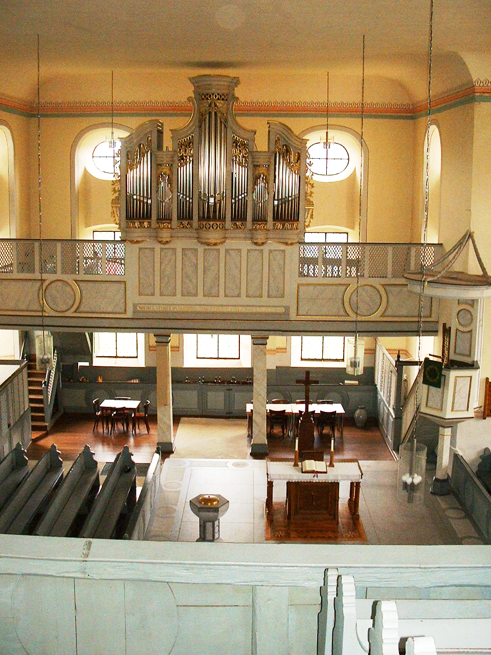 Protestant Church Kleinich, Stumm organ